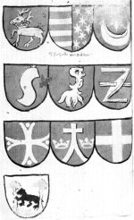 Folio 224 from Armorial Lyncenich